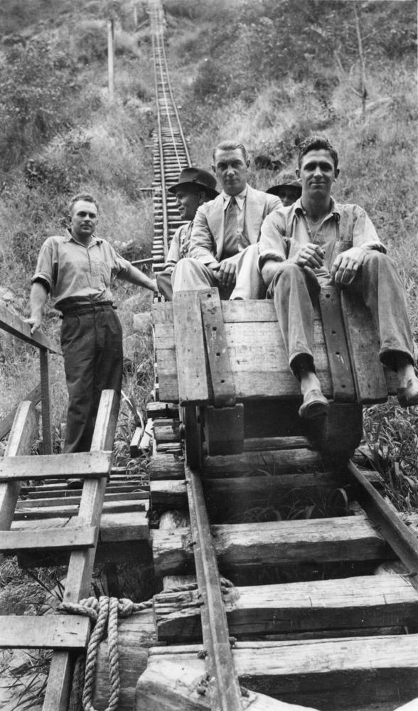 Workmen and engineers on the Barron Gorge tramway, ca. 1935 Barron Gorge Hydro-Power Station was Australia's first underground power station, built in 1935 to harness the water flowing over Barron Falls. This is the access tramway down the side of Barron Gorge during hydro construction. (Description supplied with photograph.).